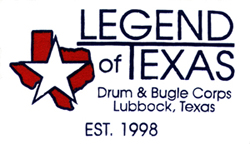 Logo of Legend of Texas Drum Corps